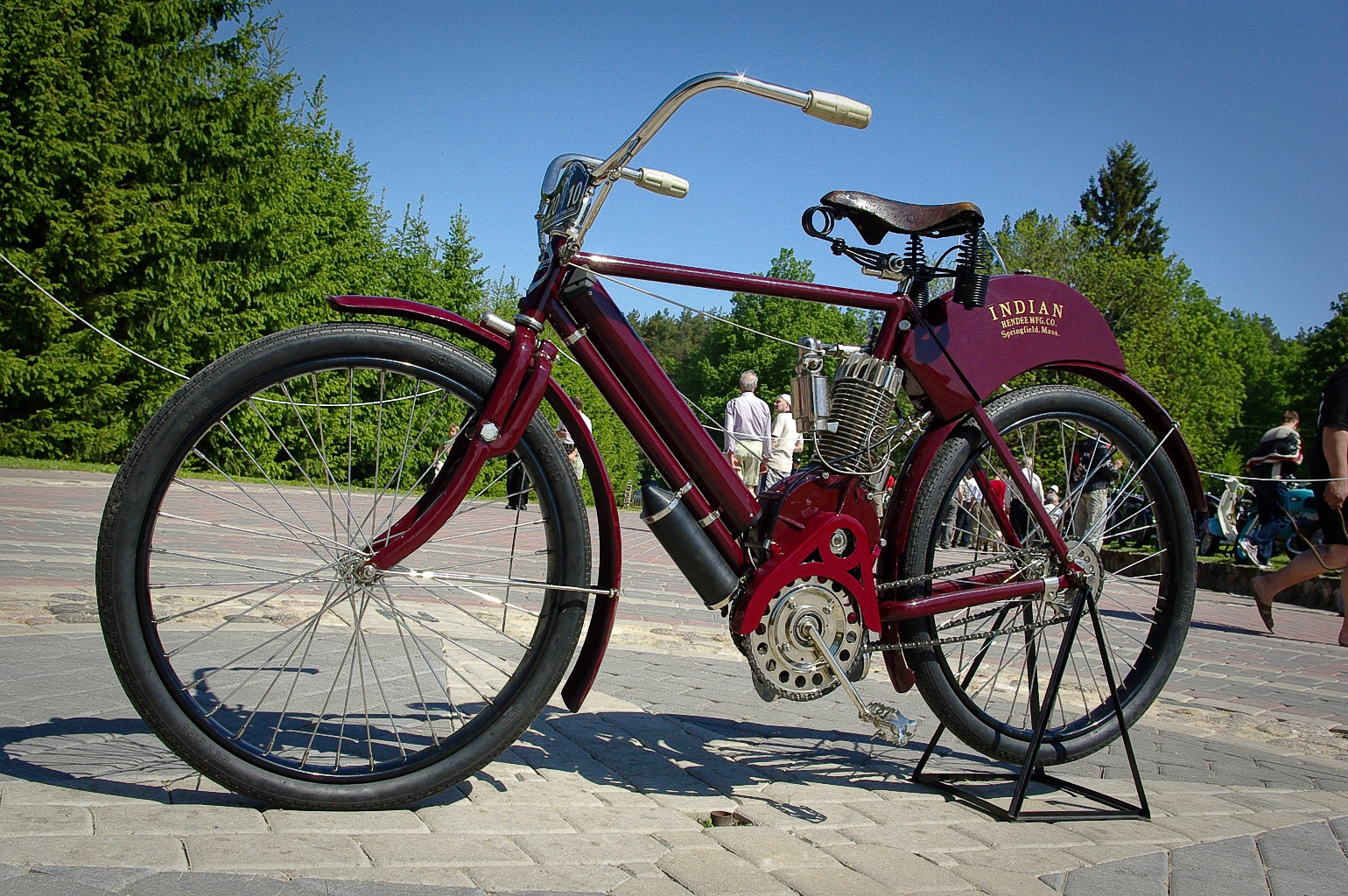 1904 Indian single